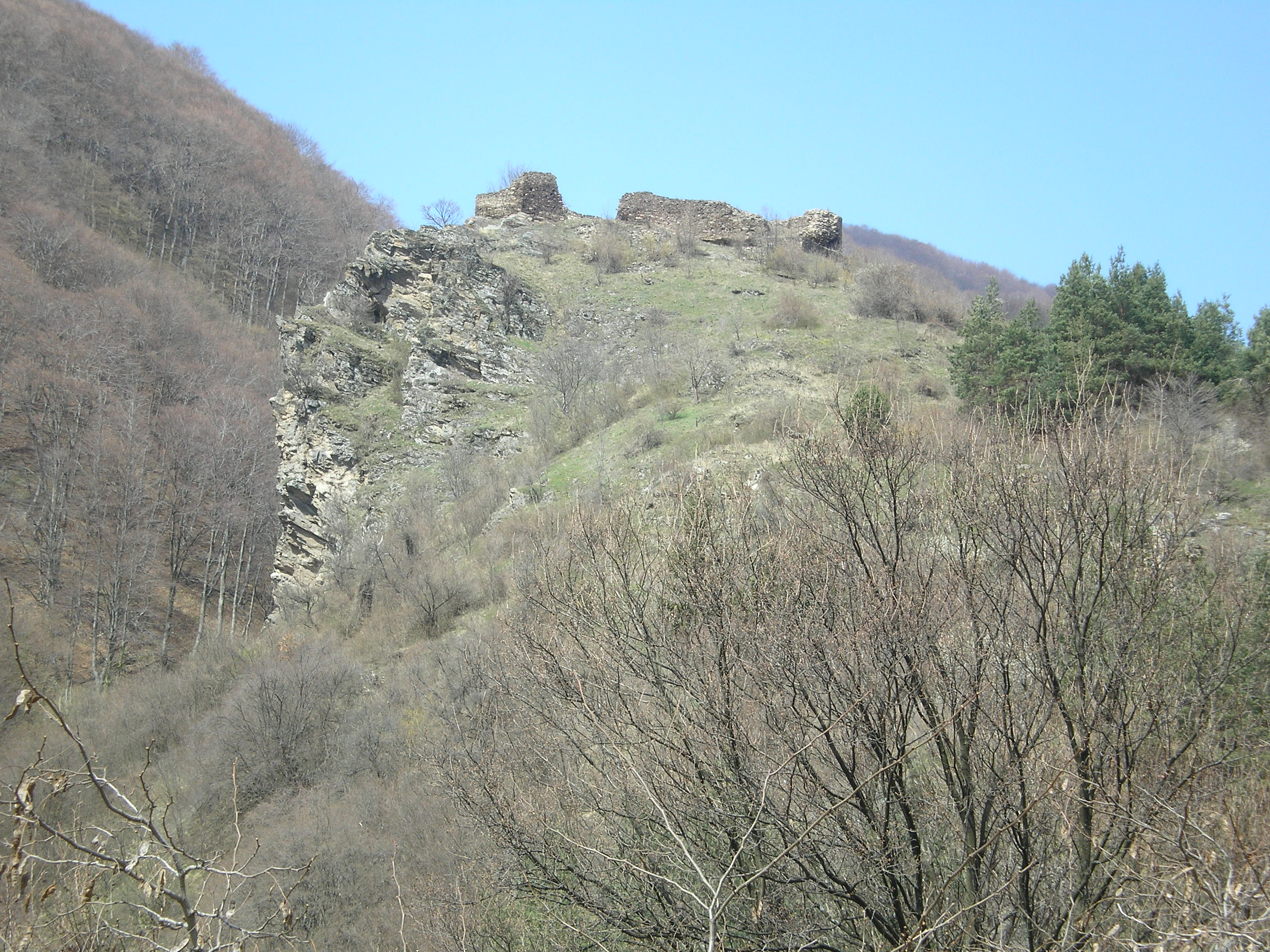 Markovo Kale Fortress in Southern Serbia